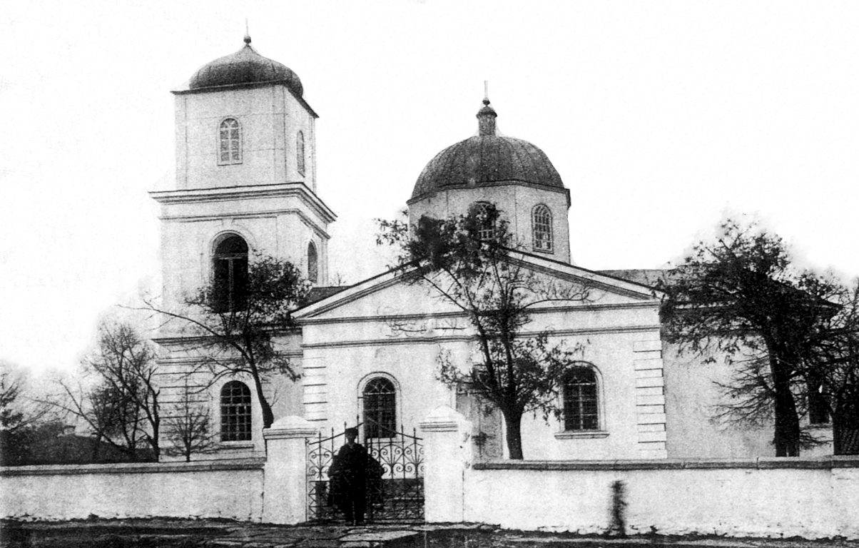 The Church of the Ascension in the village of Kishlav. Vllage Kurskoe, Belogorsky district, Crimea.